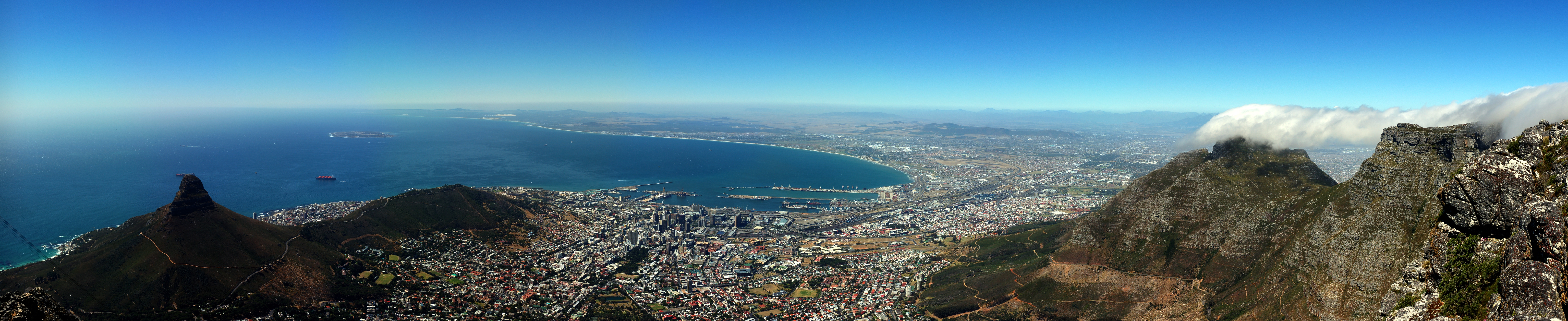 Panoramic view of the Cape Town city center, from Table Mountain.